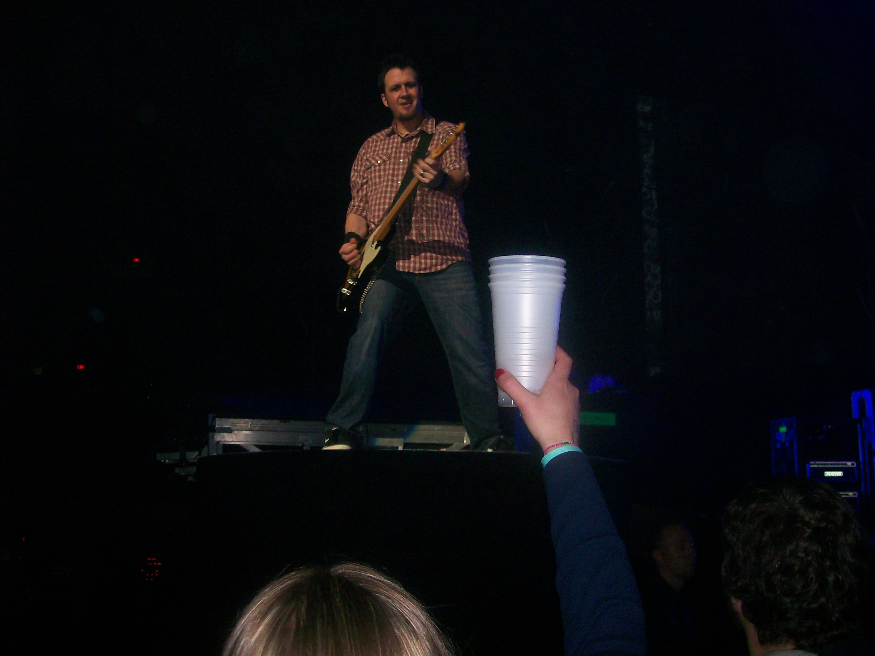 Troy McLawhorn, Seether Lead Guitarist at the Allstate Arena in Rosemont,IL (Chicago) 3-12-09